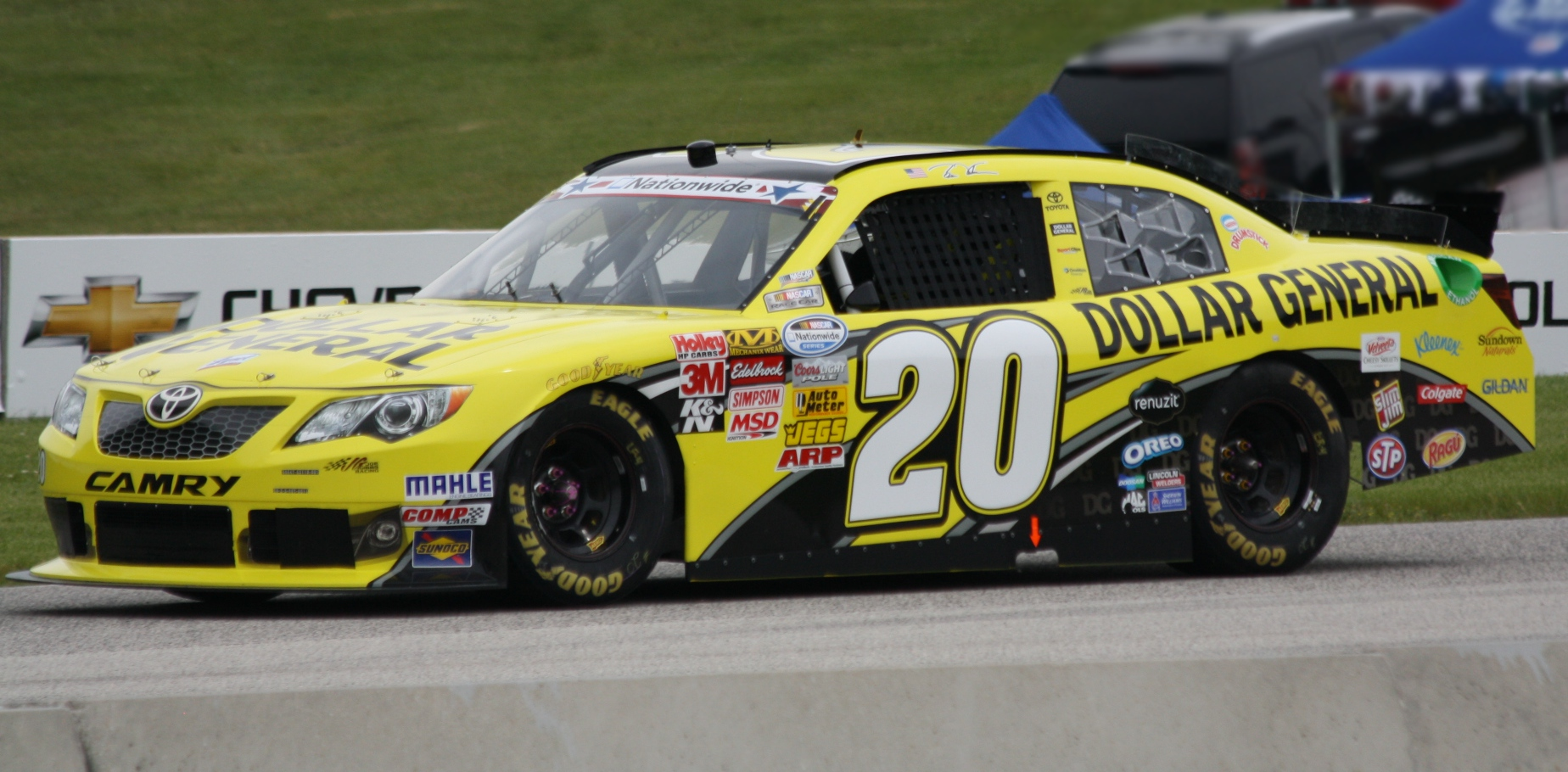 The NASCAR Nationwide car of Brian Vickers during the w:2013 Johnsonville Sausage 200 at Road America.